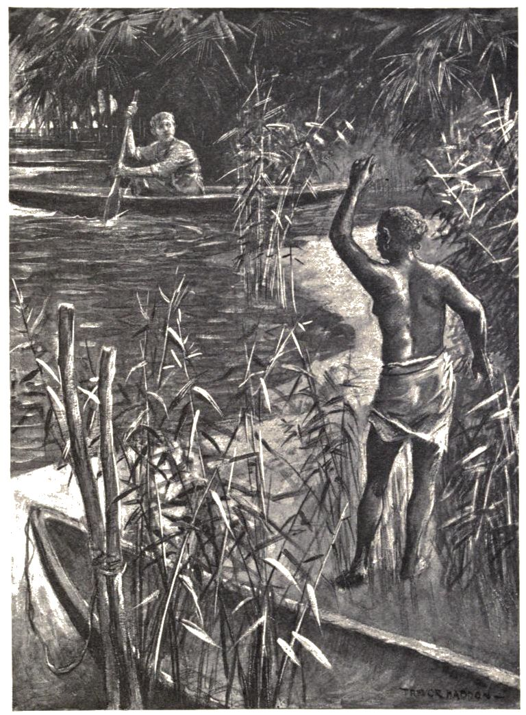 jpg of image on page 375 of File:Yule Logs.djvu